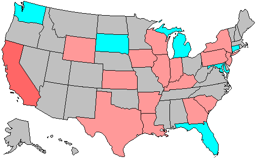 Summary of party change of U.S. house seats in the 1978 House election. Stripes indicate a tie between the gains of two or more parties. Legend: 6+ Democratic seat pickup 3-5 Democratic seat pickup 1-2 Democratic seat pickup 1-2 Republican seat pickup 3-5 Republican seat pickup 6+ Republican seat pickup Note: years ending in 2 may have inconsistent results due to redistricting.